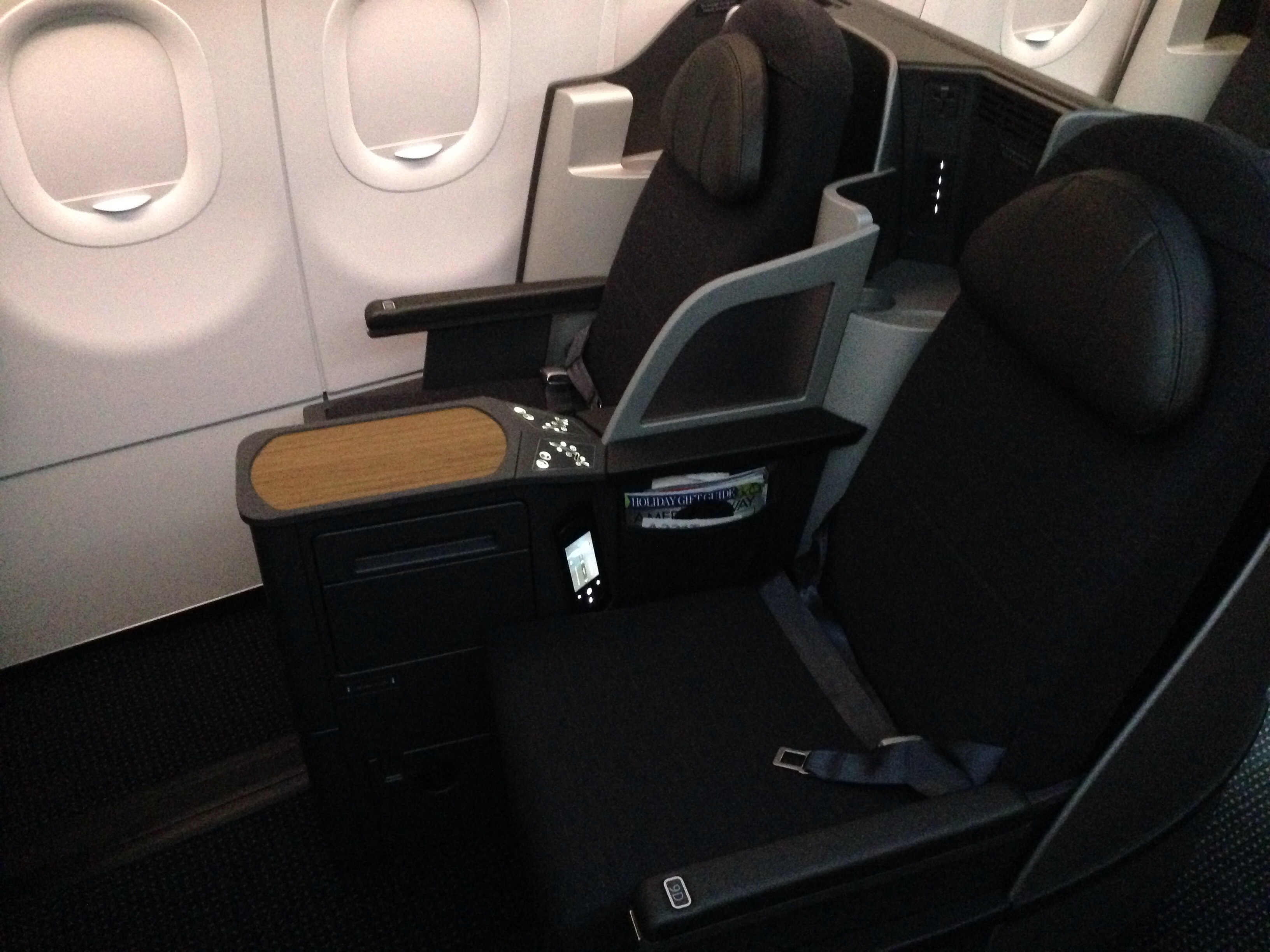 A new product to American, though I think I've seen something similar elsewhere.